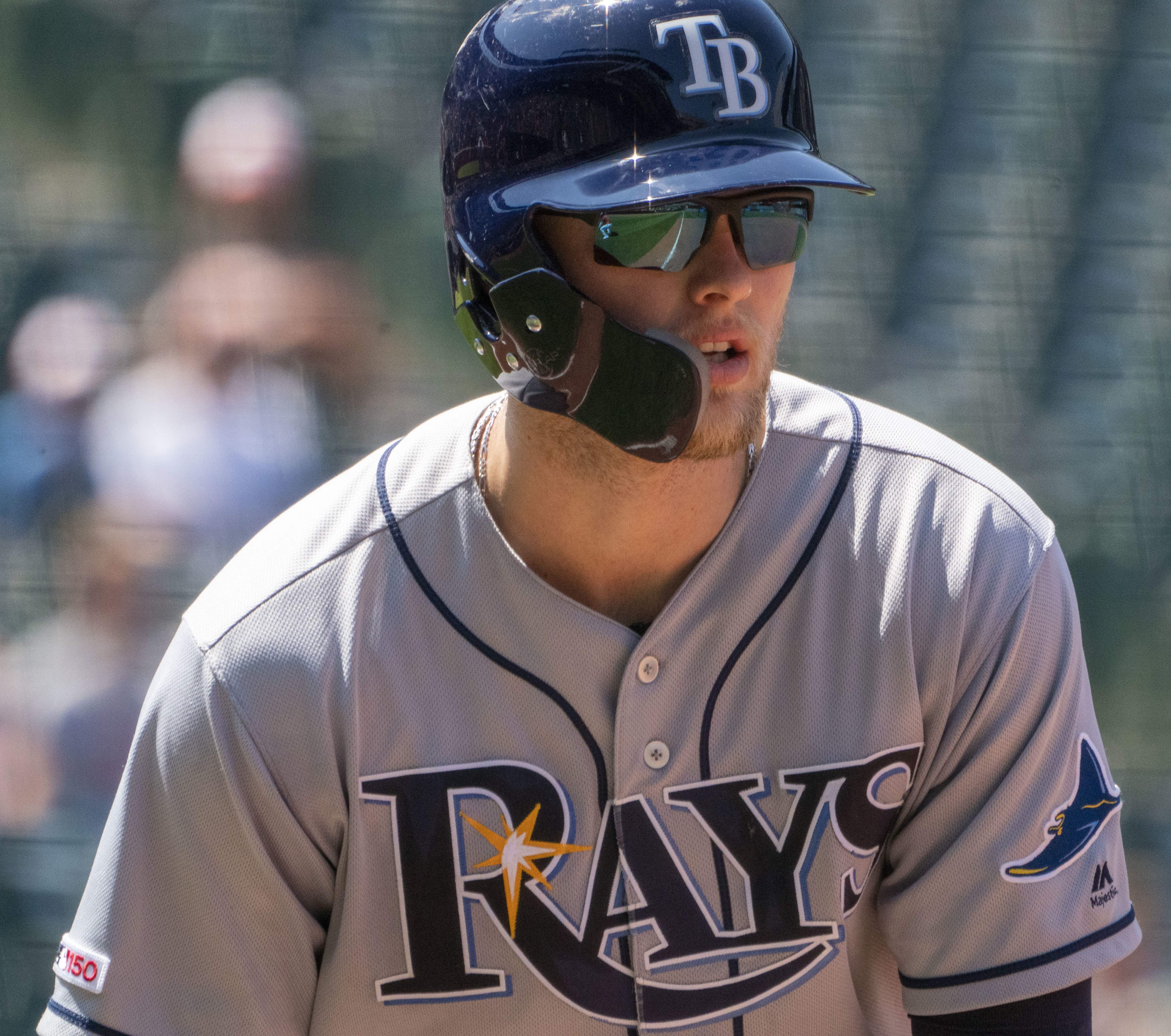 Rays at Orioles 7/13/19